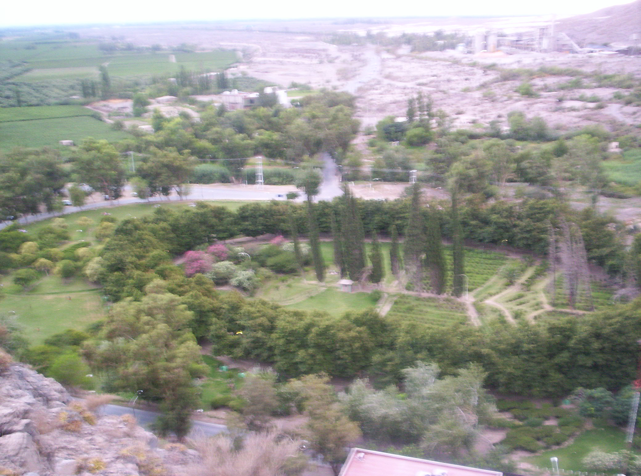 View shield formed by the trees in the Garden of Poets, Qubrada of Zonda, Rivdavia department, province of San Juan, Argentina